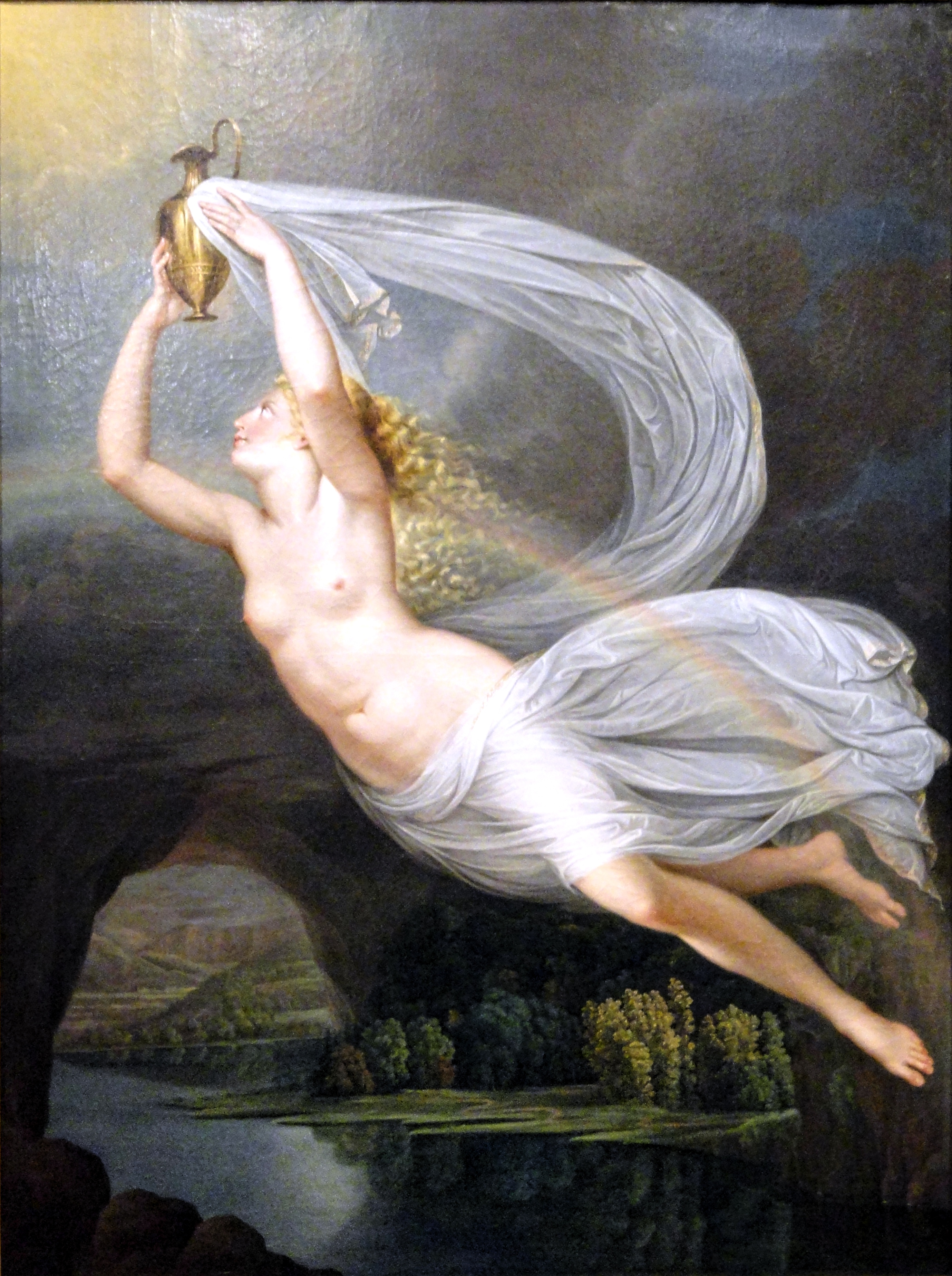 Exhibit in the Nelson-Atkins Museum of Art, Kansas City, Missouri, USA. ; I took this photograph and release it into the public domain.